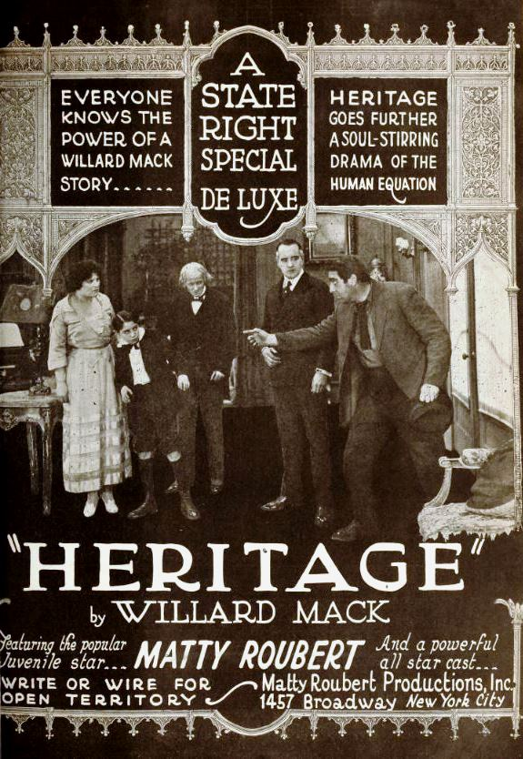 Advertisement for the American drama film Heritage (1920) with Augusta Perry, Matty Roubert, Joseph Burke, Herbert Standing, and Phil Sanford, on page 19 of the August 21, 1920 Exhibitors Herald.